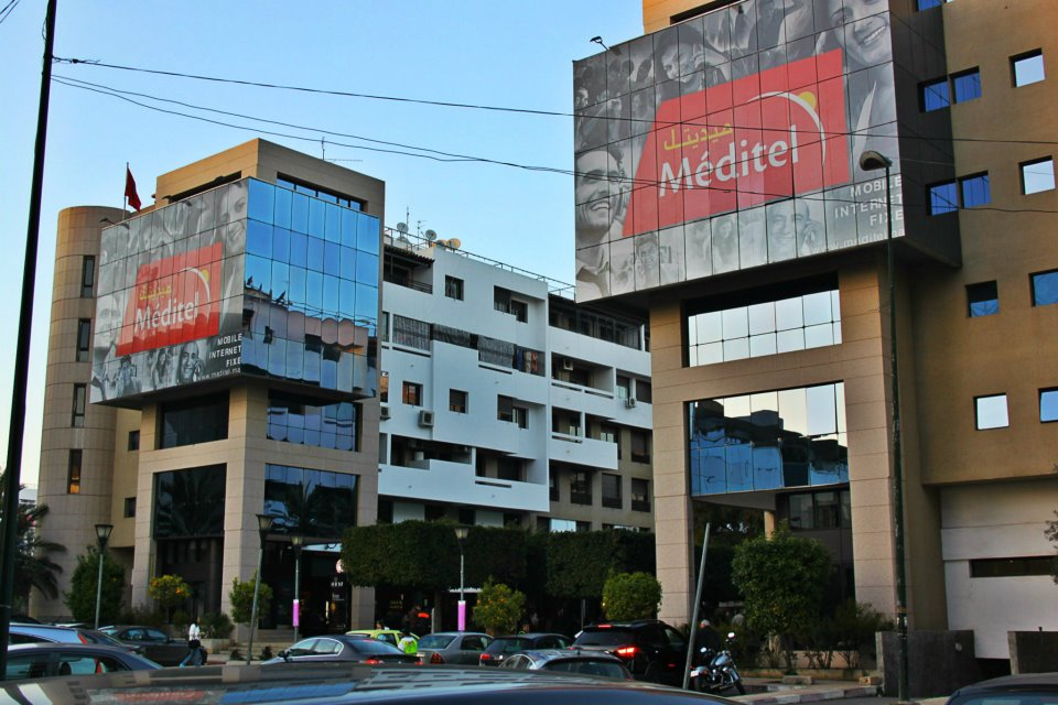 Mahaj-Meditel